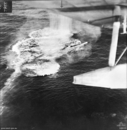 AT SEA. 1943-08-02. FRAMED BY THE PORT WING AND FLOAT OF A NO. 461 SQUADRON RAAF SUNDERLAND AIRCRAFT, CAPTAINED BY FLIGHT LIEUTENANT I. A. F. CLARKE, IS THE 700 TON U106, WHICH HAD BEEN STRADDLED IN A DEPTH CHARGE ATTACK BY AN RAF SUNDERLAND N/228. THE COMBINED ATTACK BY BOTH SUNDERLANDS SANK THE GERMAN NAVY U-BOAT.